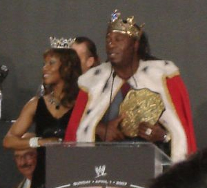 King Booker and his wife Sharmell at the WrestleMania 23 Fan Rally press conference.